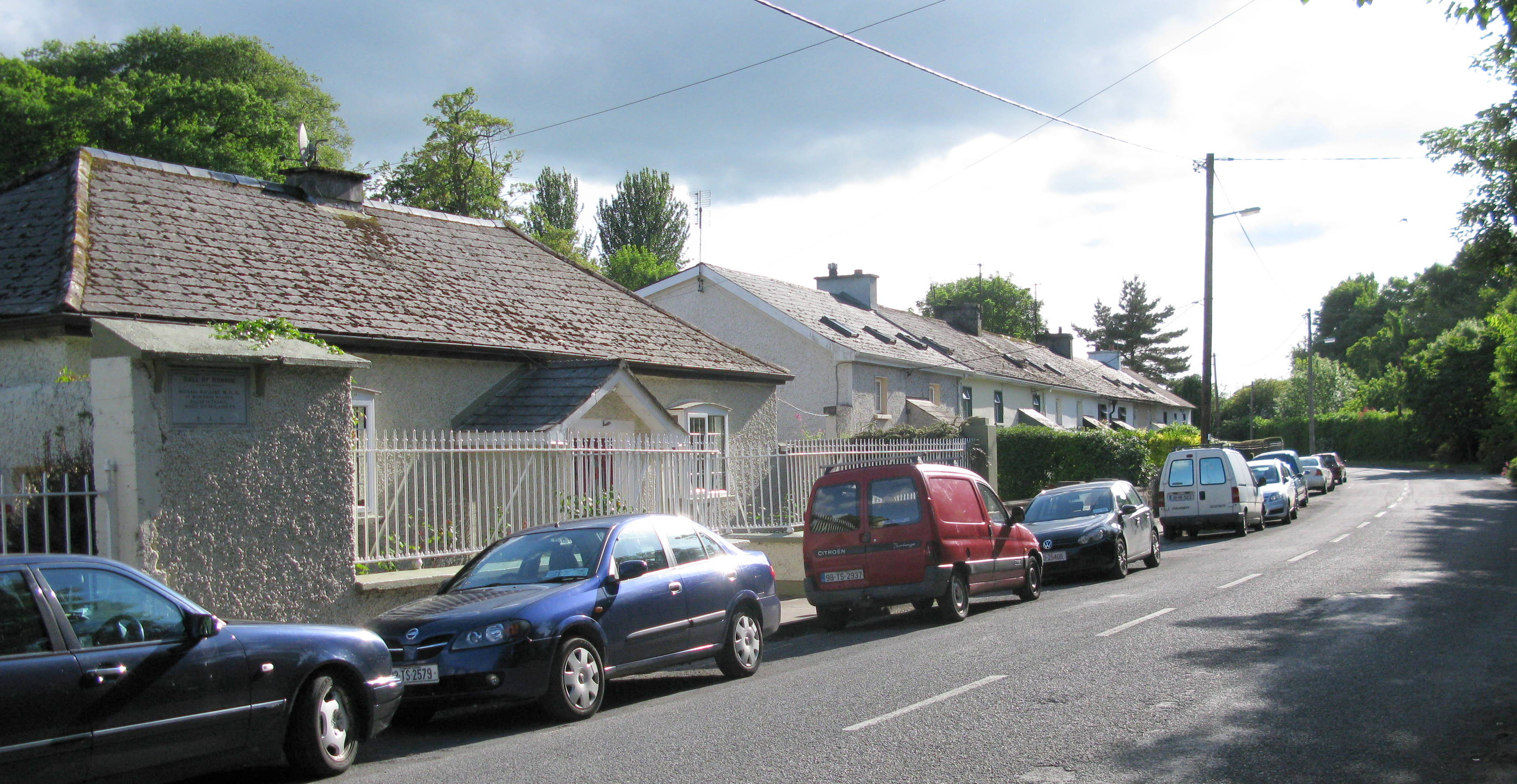 Marlfield village, showing the former school and terrace of houses formerly occupied by workers employed on the Bagwell estate.